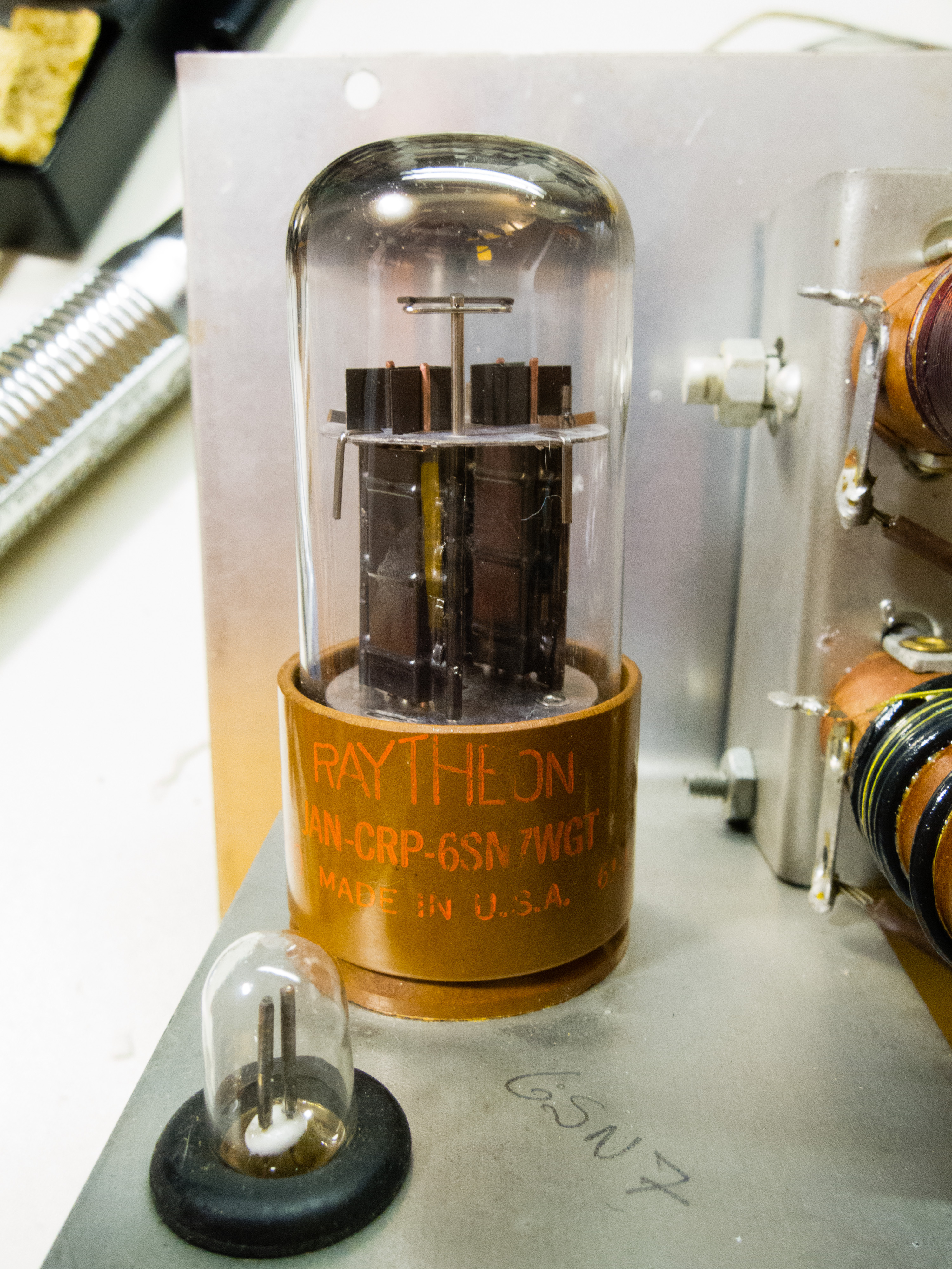 Raytheon 6SN7 oscillator tube in a Heathkit G-1 radio frequency generator